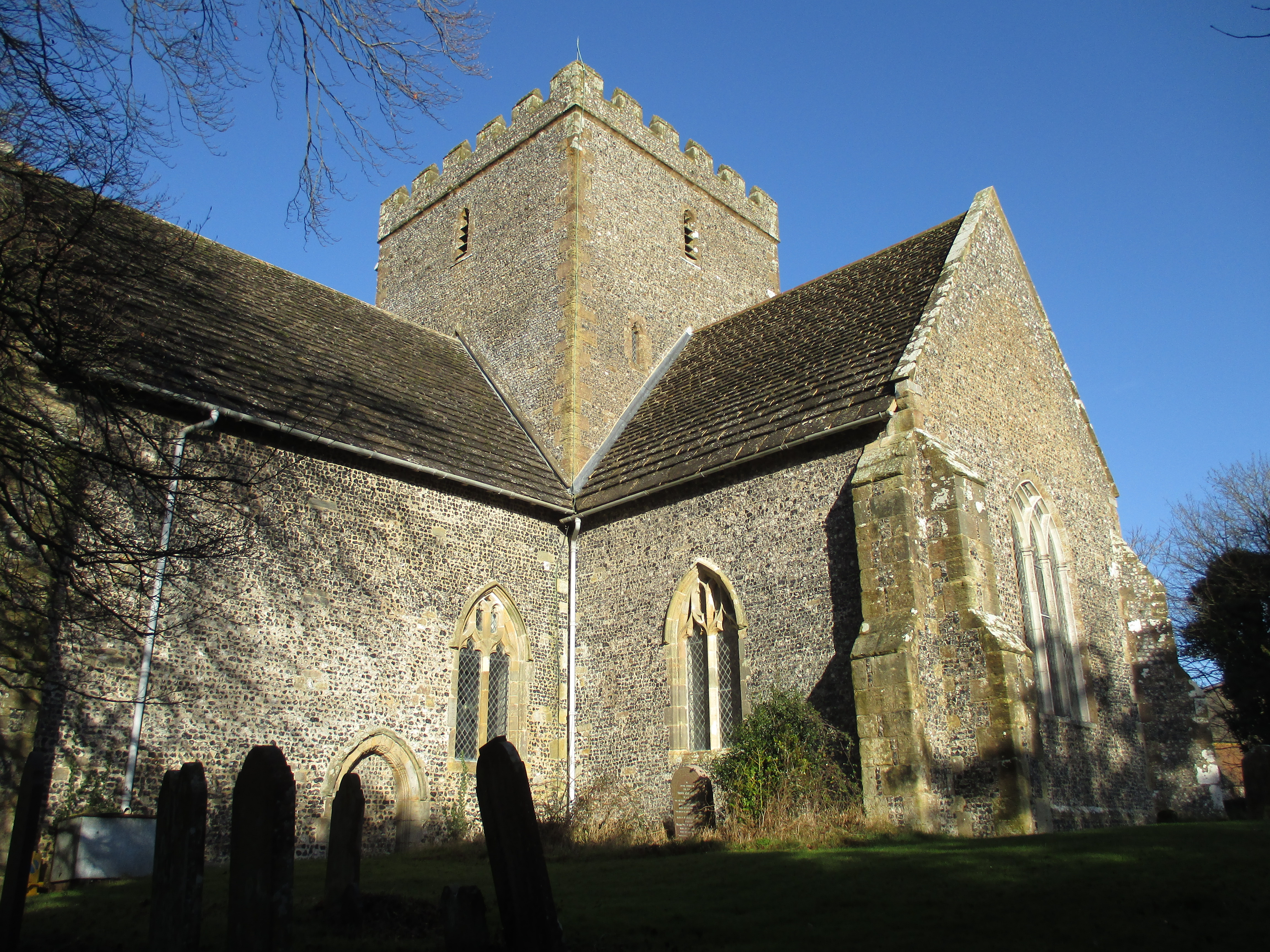 The parish church of Poynings, West Sussex, seen from the south-west